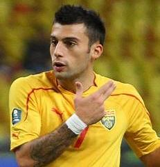 Ivan Tričkovski with Macedonia national football team.